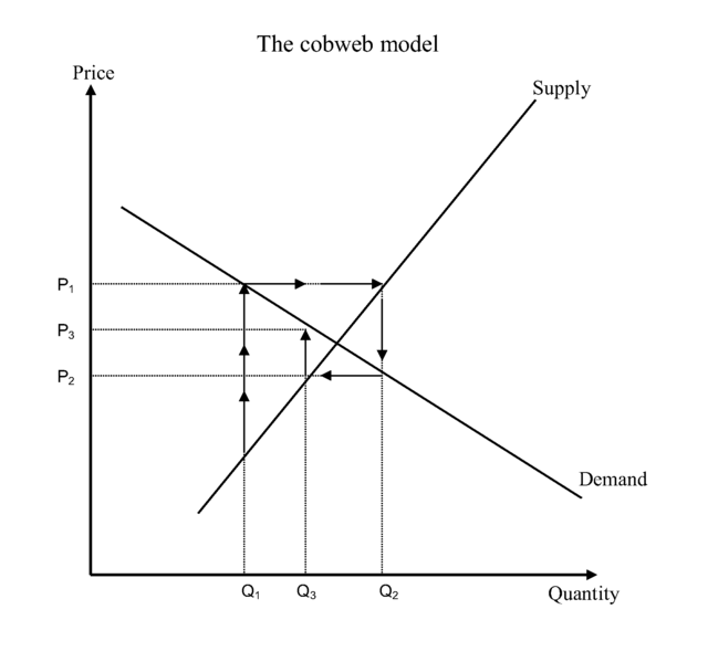 A graph illustrating the cobweb model of price (and quantity) fluctuation.